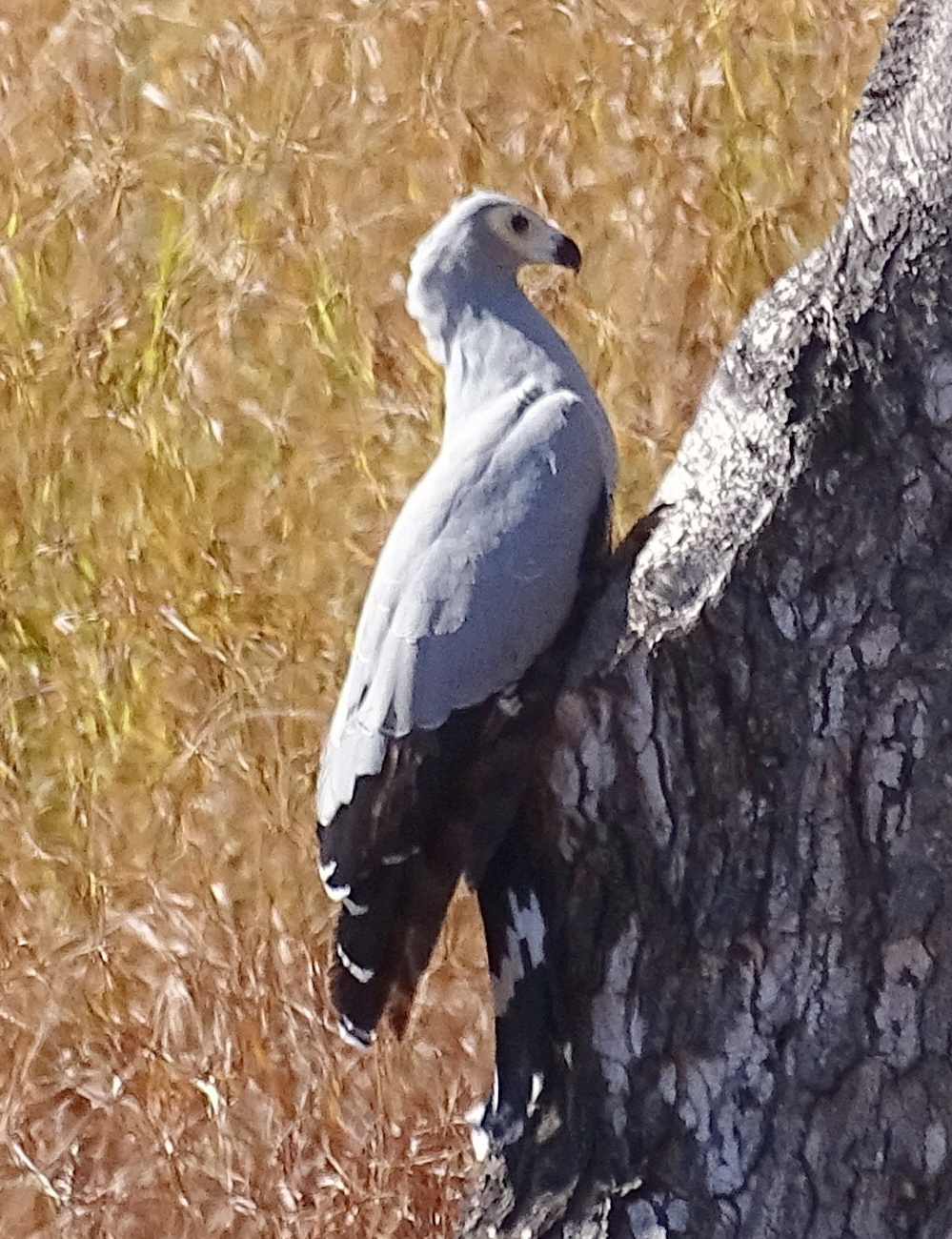 Madagascan harrier-hawk near Mahaboboka, SW Madagascar